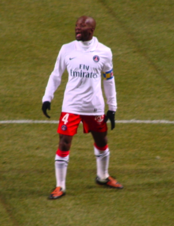 Claude Makélélé PSG player